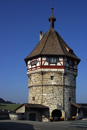 Description: The Munot is a fortification in the Swiss city of Schaffhausen.